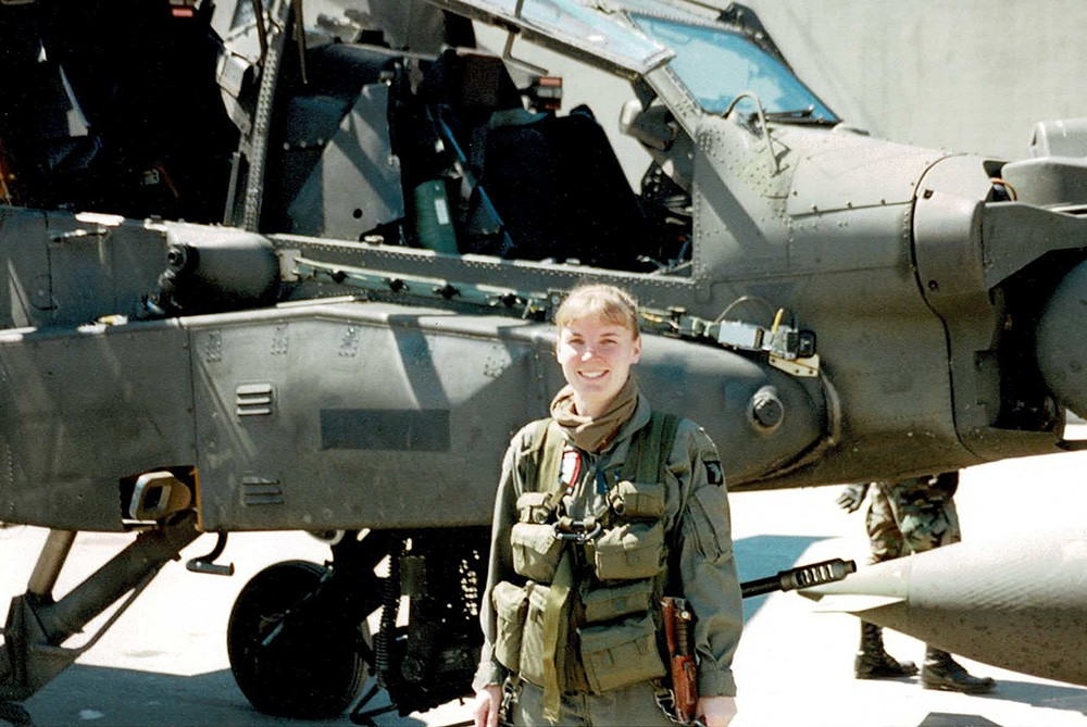 US Army Pilot Leslie Herlick stands in front of her helicopter